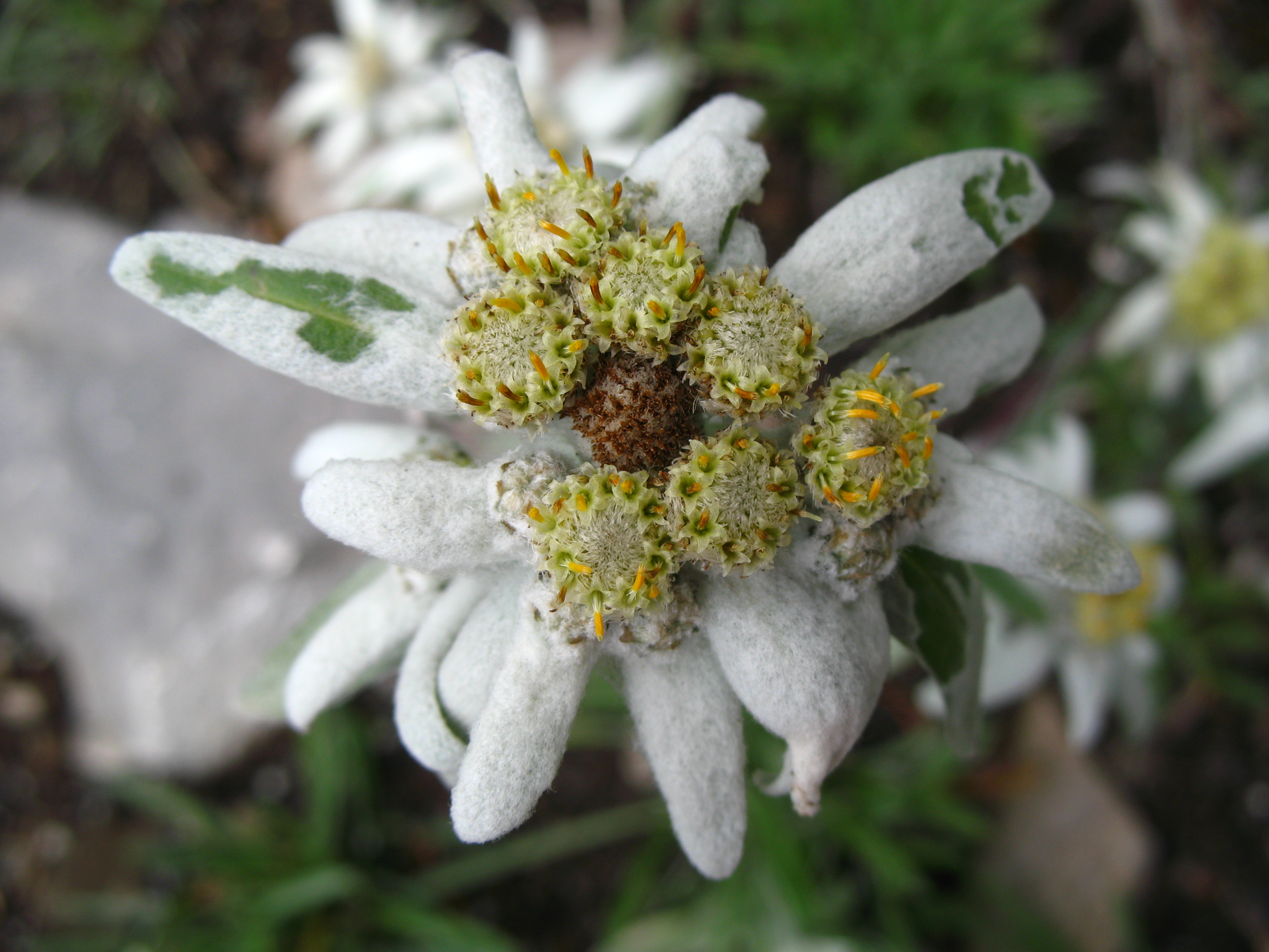 Leontopodium alpinum, Schynige Platte, Switzerland